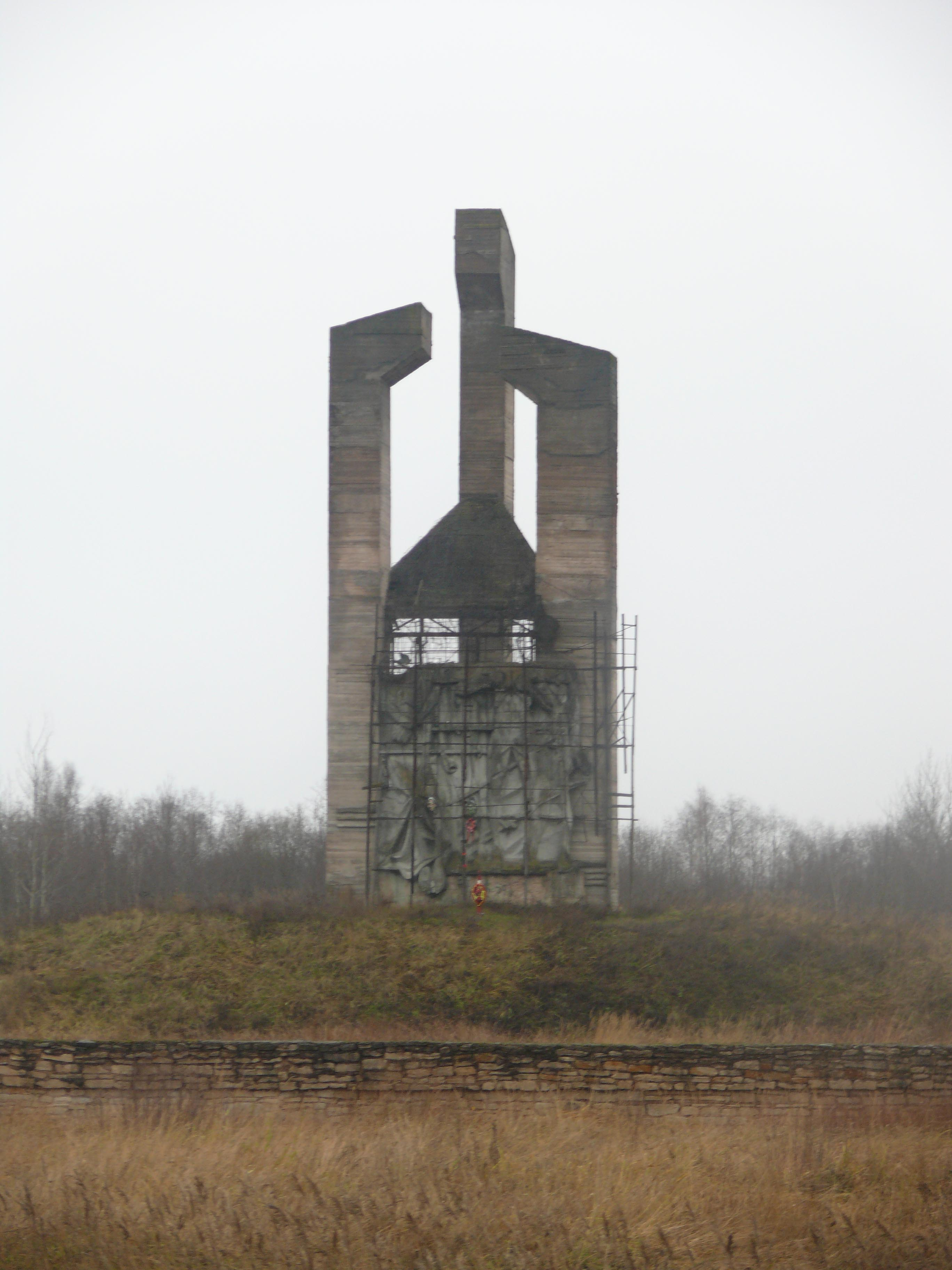 Nazi concentration camp "Dulag 100" near Porkhov, Pskov oblast, Russia